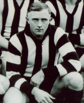 Photograph of Fred Froude from 1930-1934